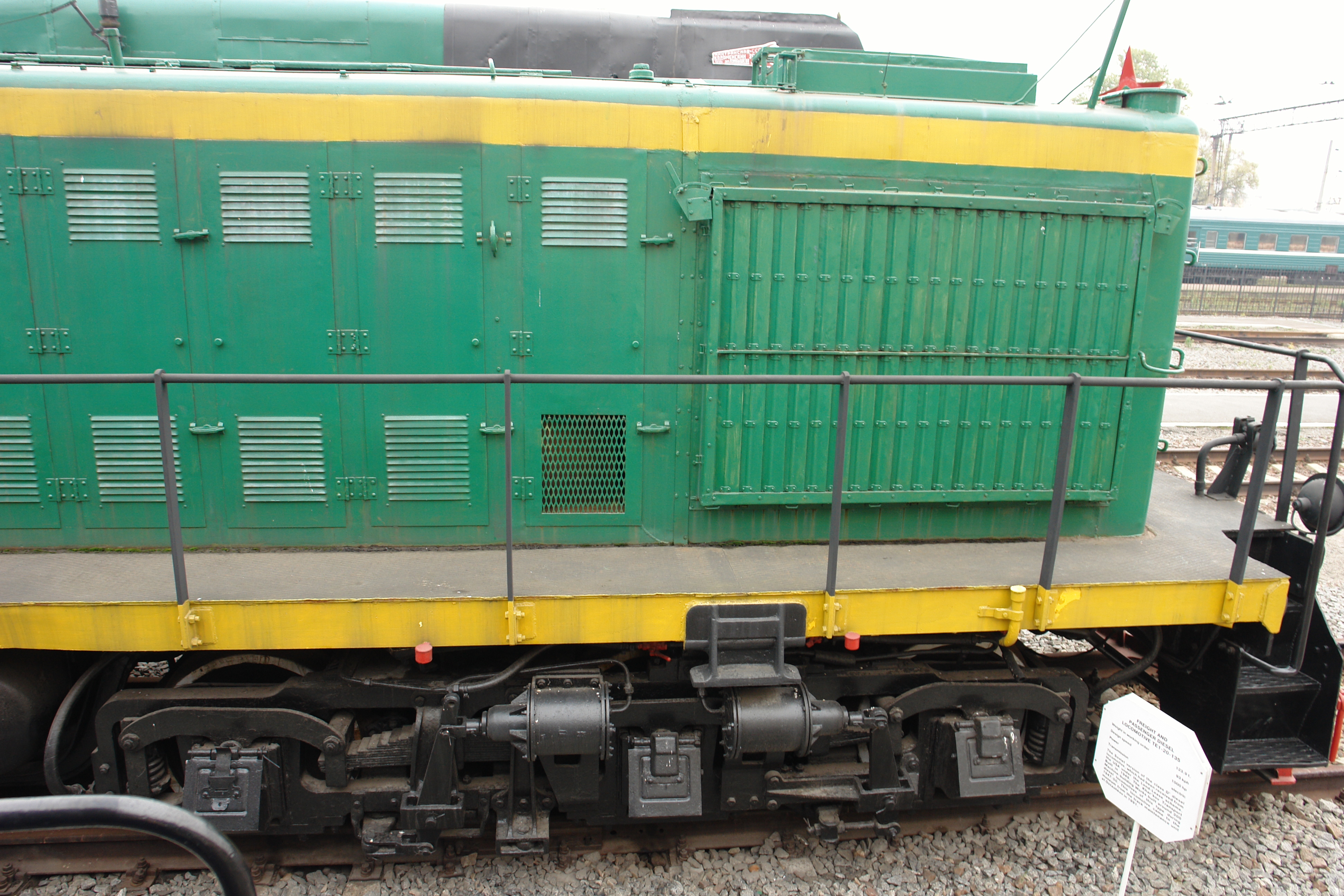 Freight and passenger diesel locomotive TE1-20-135